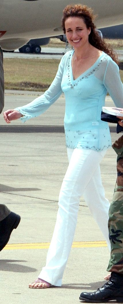 Actress Andie MacDowell visit the Navy; 050614-N-3983C-005 Sigonella, Sicily (June 14, 2005) Actress Andie MacDowell tours the flightline with Commodore of Command Task Force Six Seven (CTF-67), Capt. Robert Lally, left, and Mobile Operations Control Center Officer in Charge, CTF-67, Lt. Cmdr. Dan Emerson, while touring Naval Air Station Sigonella. NAS Sigonella provides logistical support for Commander, Sixth Fleet and NATO forces in the Mediterranean area. U.S. Navy photo by Photographer's Mate 3rd Class Betsi Currence